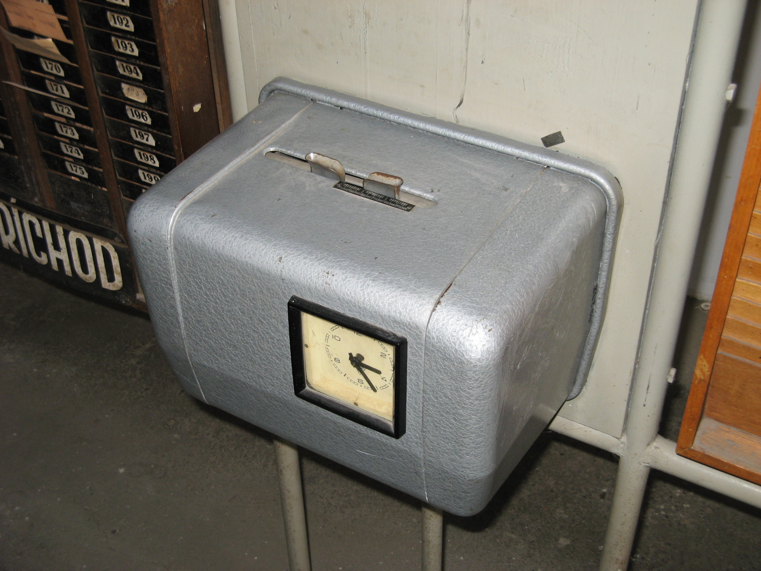 Czech timer recorder, mechanical clock recording attendance of workers on cards in factories